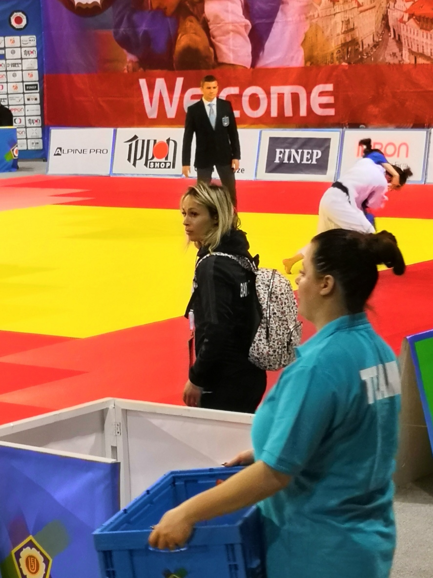 Prague Continental Open 2019